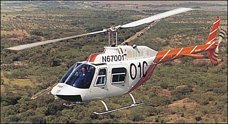 TH-67A Creek (Bell 206) training helicopter used by the United States Army.